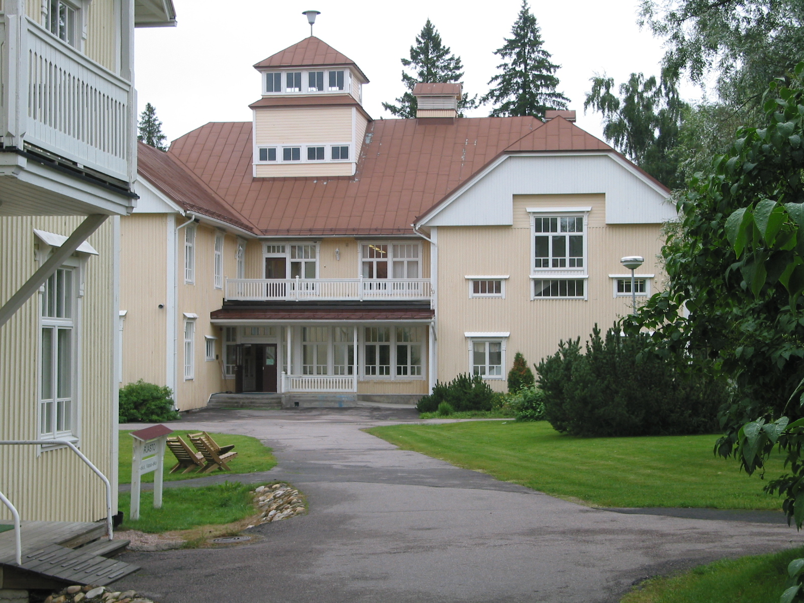 The main and library building of the Raudaskylä Christian Folk High School in Ylivieska, Finland